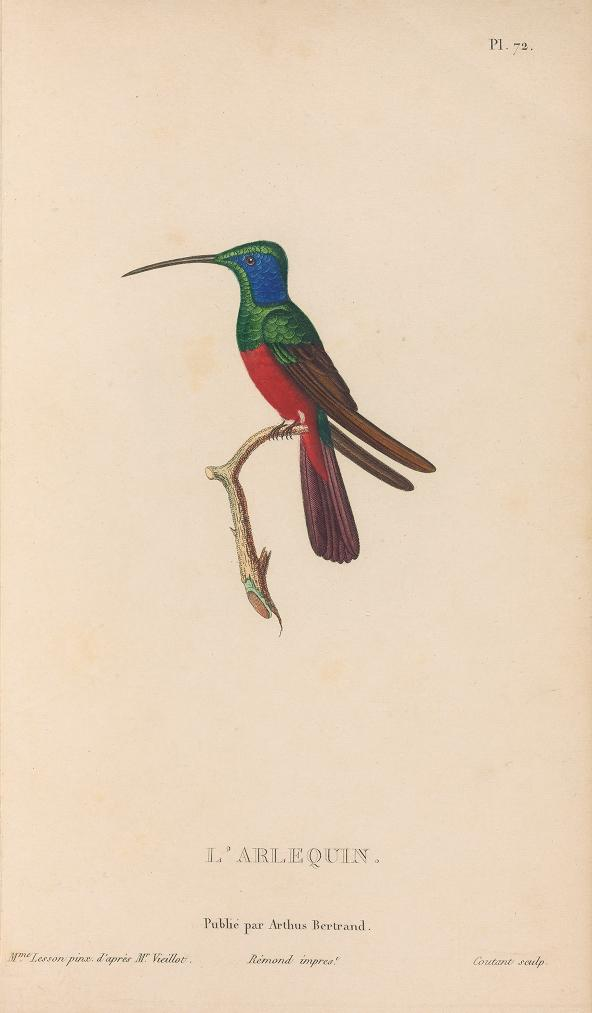 L'Arlequin (Harlequin Hummingbird) Plate 72 of Histoire naturelle des oiseaux-mouches : ouvrage orné de planches dessinées et gravées par les meilleurs artistes by René Primevère Lesson. Illustrated by Marie Clémence Lesson